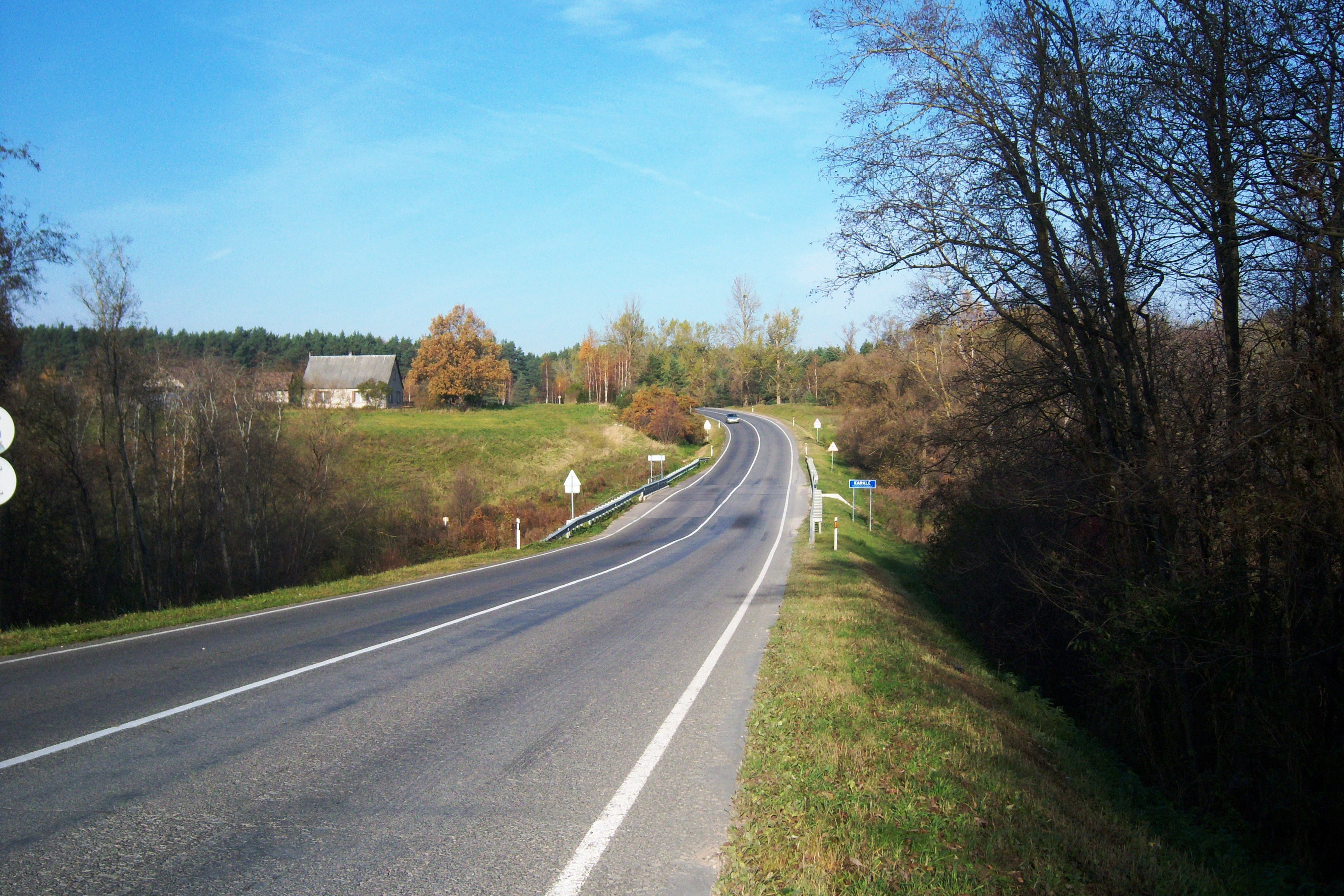 Road KK141 over Karklė River, Kaunas district, Lithuania